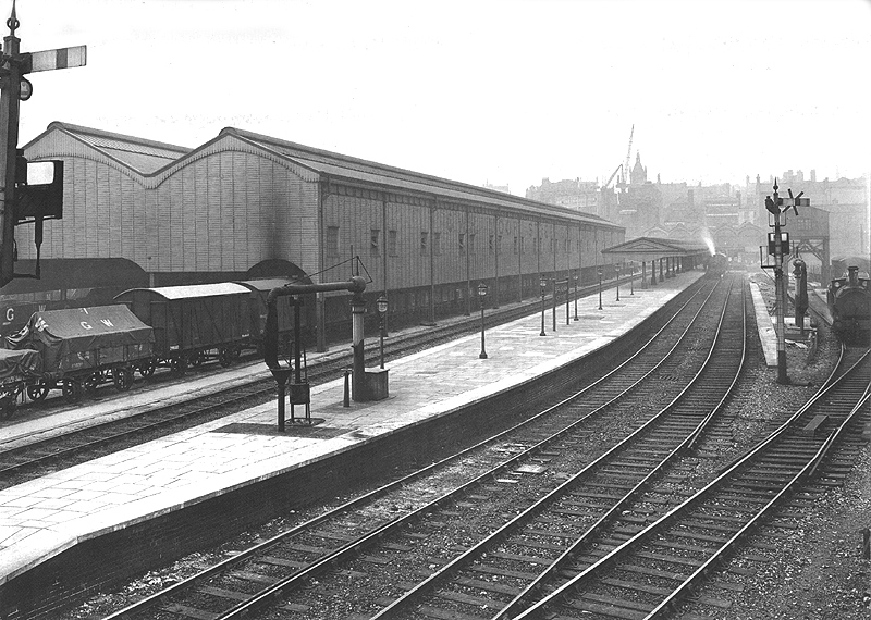 Moor Street railway station, Birmingham in 1915, seen from the bottom of the station's island platform, with the goods yard to the left. The third side platform is still under construction.